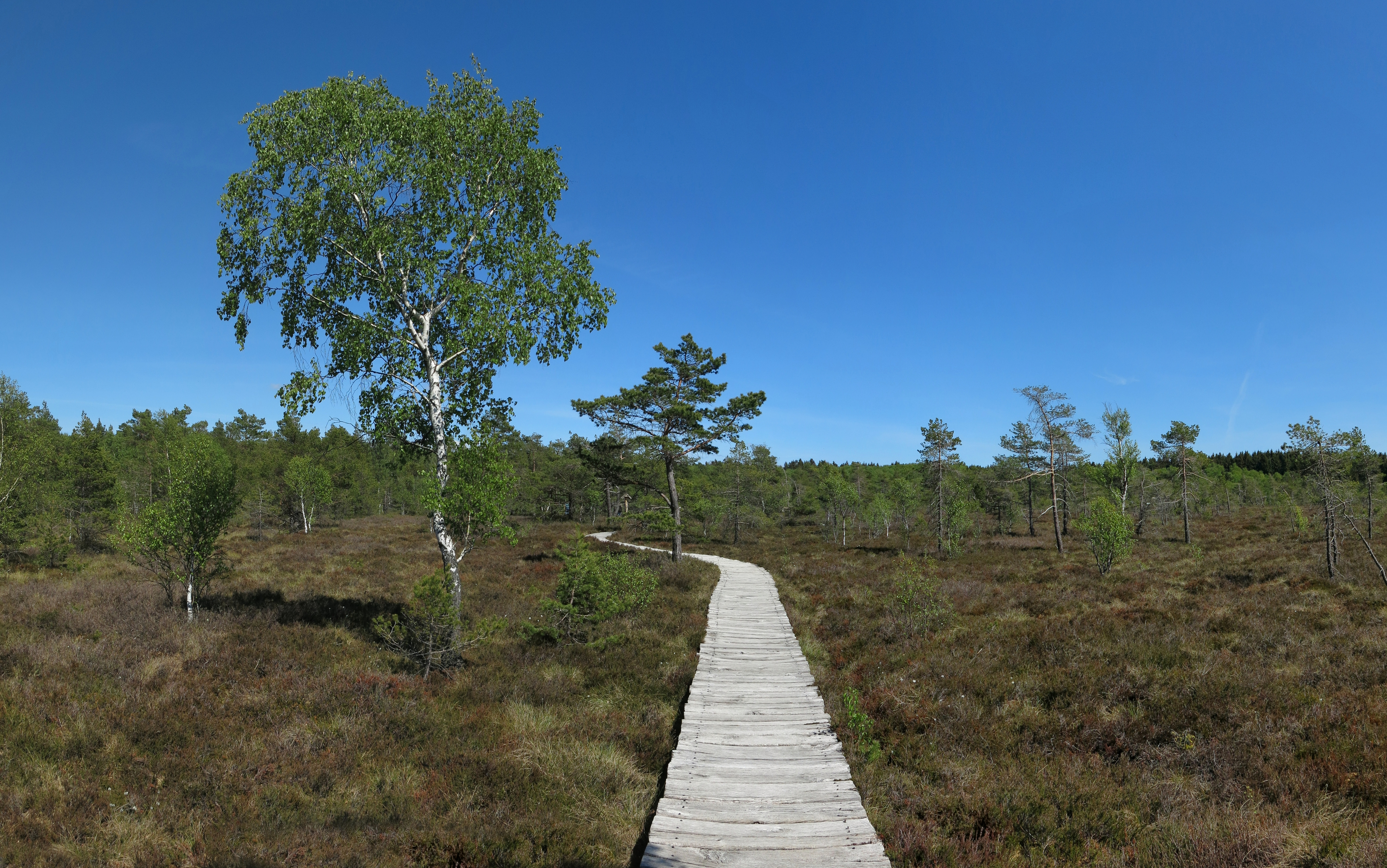 Black Moor, Rhön Mountains, Bavaria, Germany